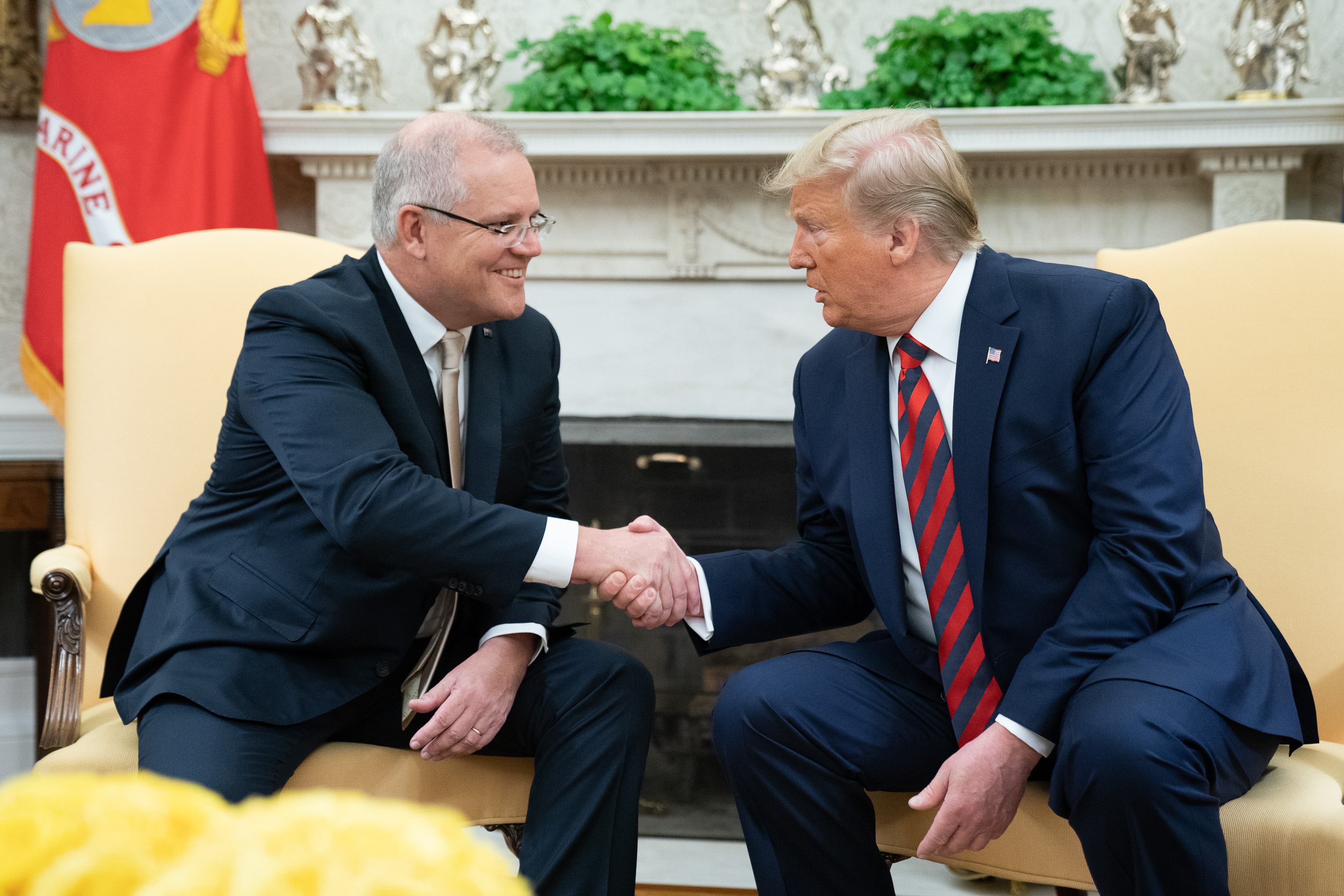 President Donald J. Trump participates in a bilateral meeting with Australian Prime Minister Scott Morrison Friday, Sept. 20, 2019, to the Oval Office of the White House. (Official White House Photo by Shealah Craighead)